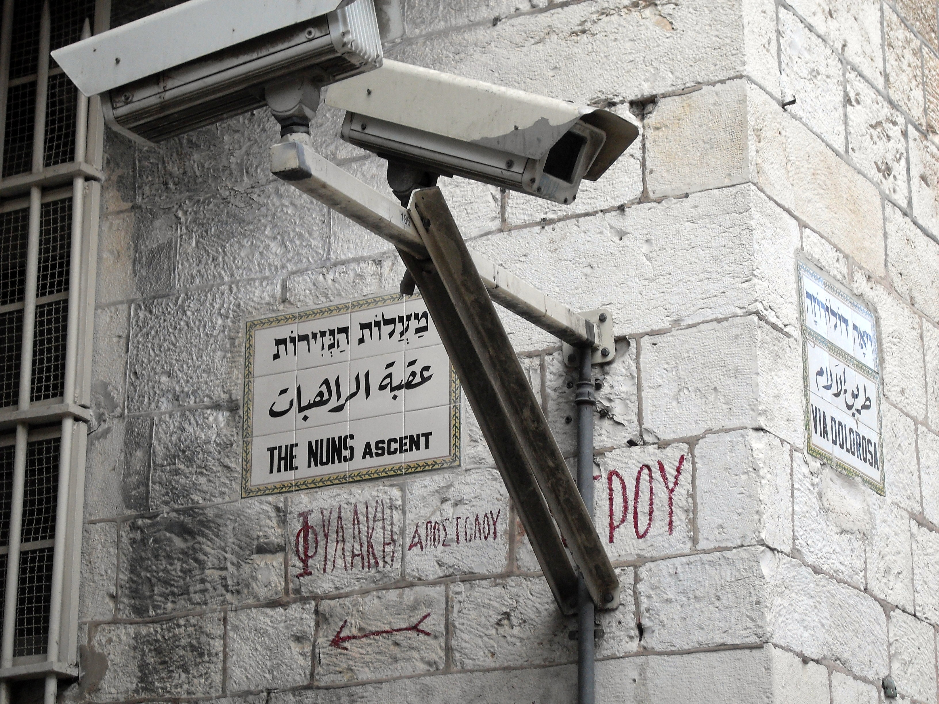 Old Jerusalem - Greek writing : ΦΥΛΑΚΗ ΑΠΟΣΤΟΛΟΥ ΠΕΤΡΟΥ (Φυλακή Αποστόλου Πέτρου : Prison of Apostle Peter) - Security cameras on Via Dolorosa - under the street sign of Via Dolorosa, there used to be a small tile with an arrow, but it has disappeared... (why?) it was still there in december 2005 : File:EcceHomo.jpg